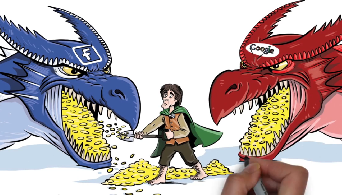 Example of Whiteboard Animation Video showing the hand drawing